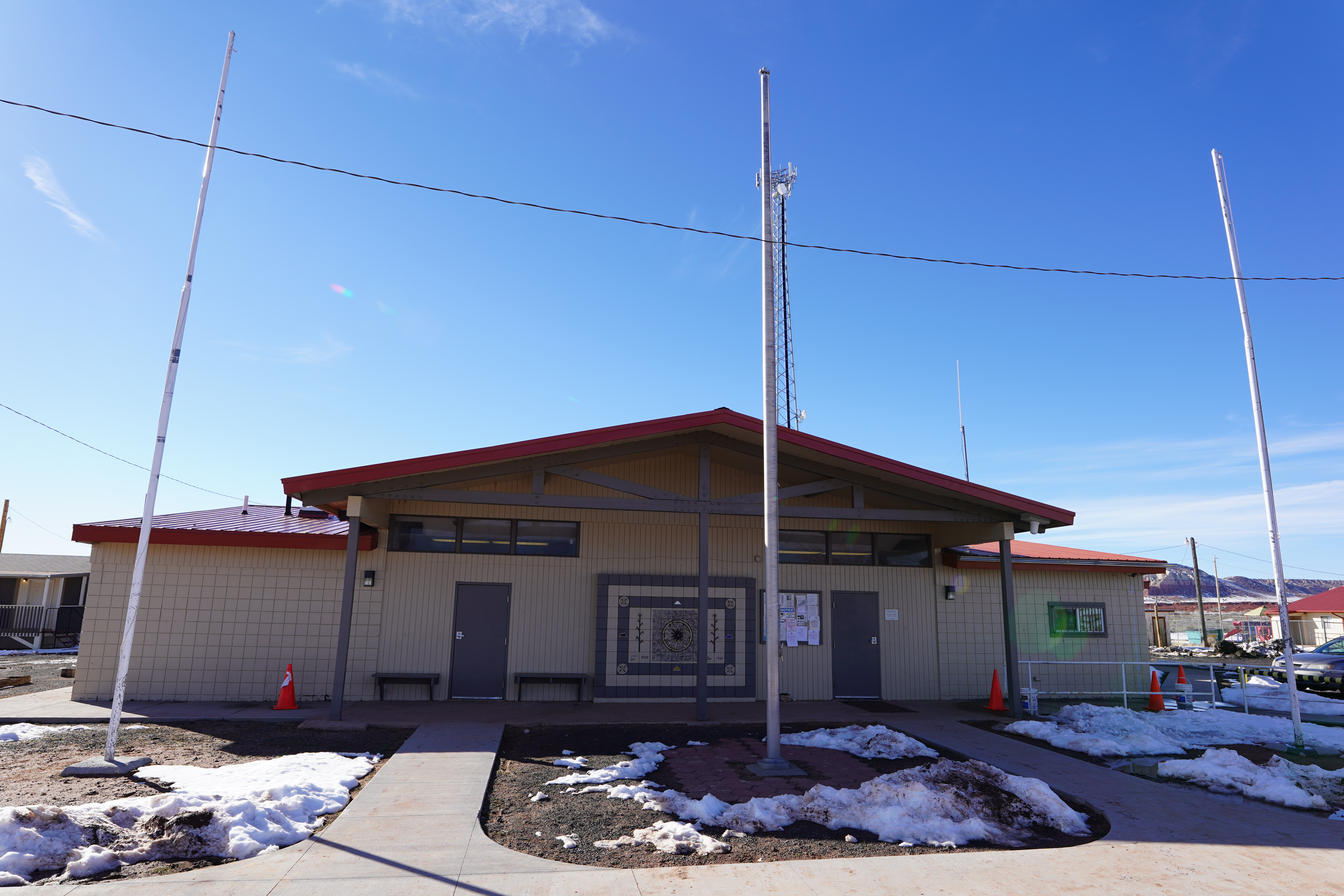 The photograph is of the Chapter House for Cornfields Chapter of the Navajo Nation. Like most chapter houses this one also has its main entrance opening to the east. Photograph taken on 2019-02-27T22:47:11Z.